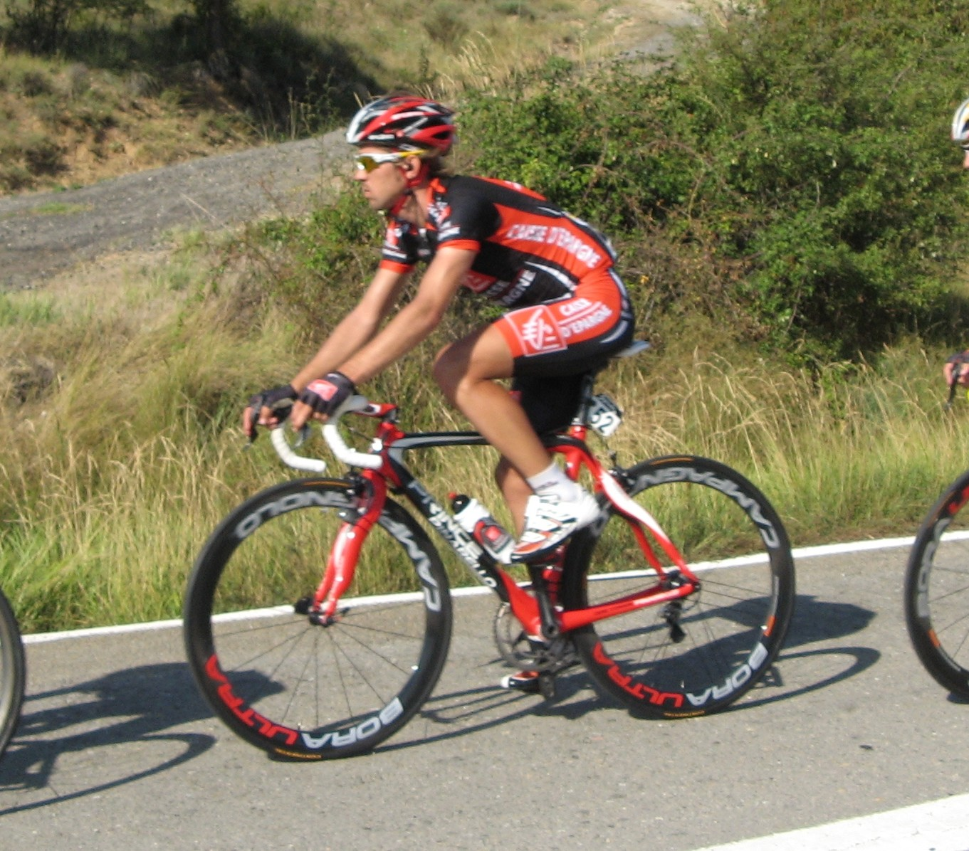 David Arroyo, 2008 Vuelta a España, 9th stage, Alto Gallego, Spain.